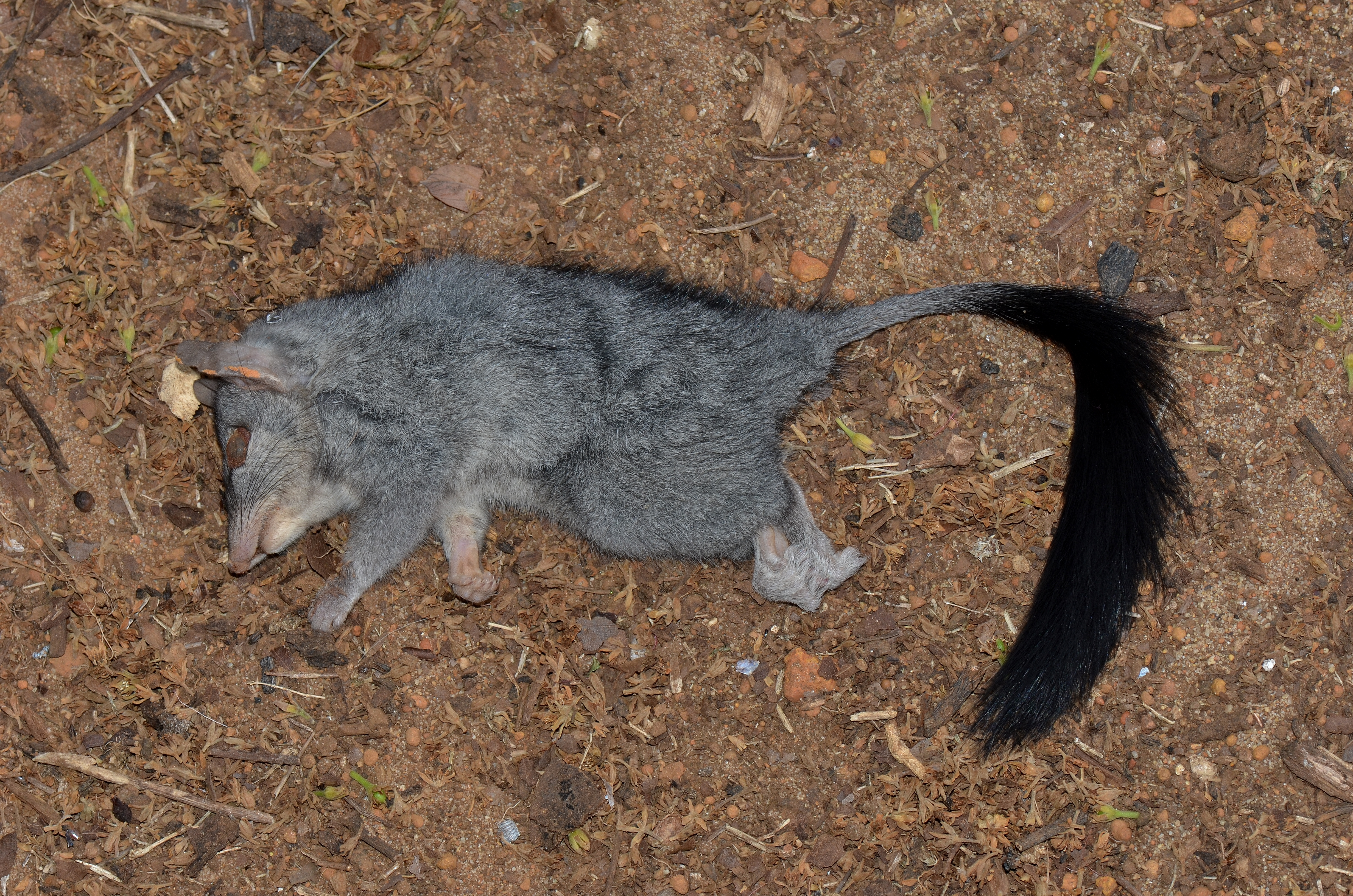 Phascogale